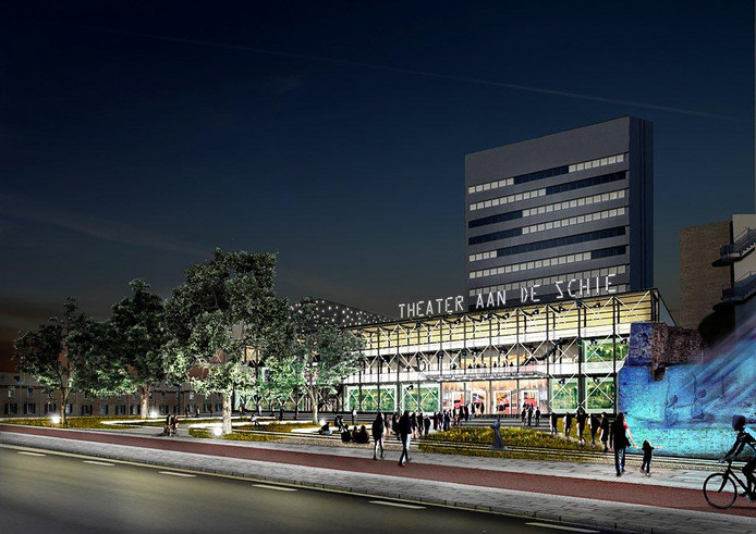 Toekomstige entree Theater aan de Schie